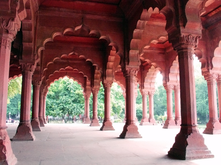 Diwan-e-Aam, Lal Quila, Delhi.